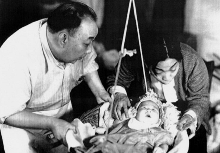 Bruce lee,when he was a baby.